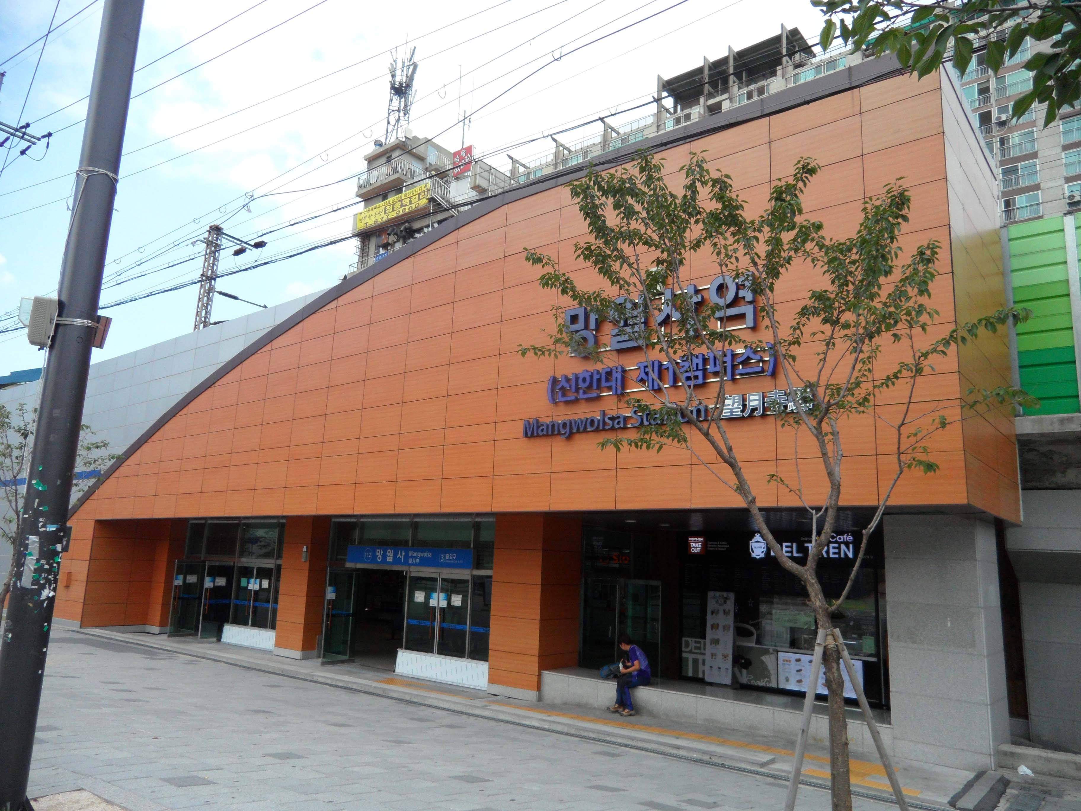 Mangwolsa Station (Uijeongbu city)